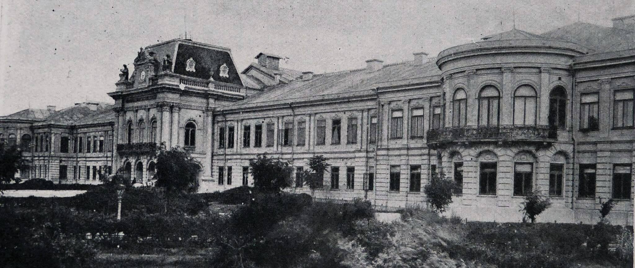 1901 Palatul Administrativ Iași